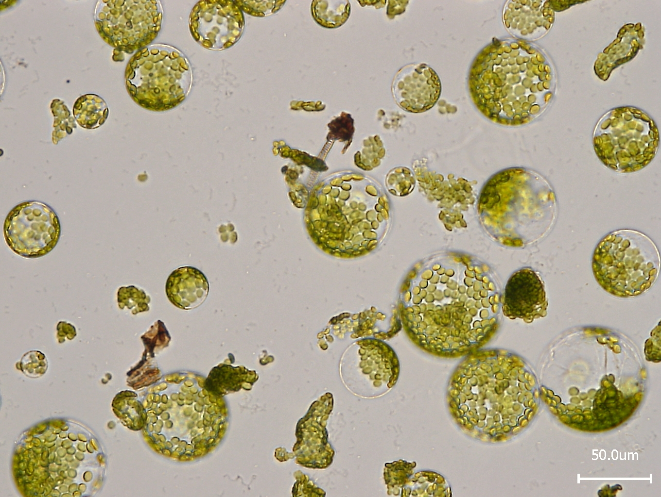 Protoplasts of a Arabidopsis thaliana (LER) leaf